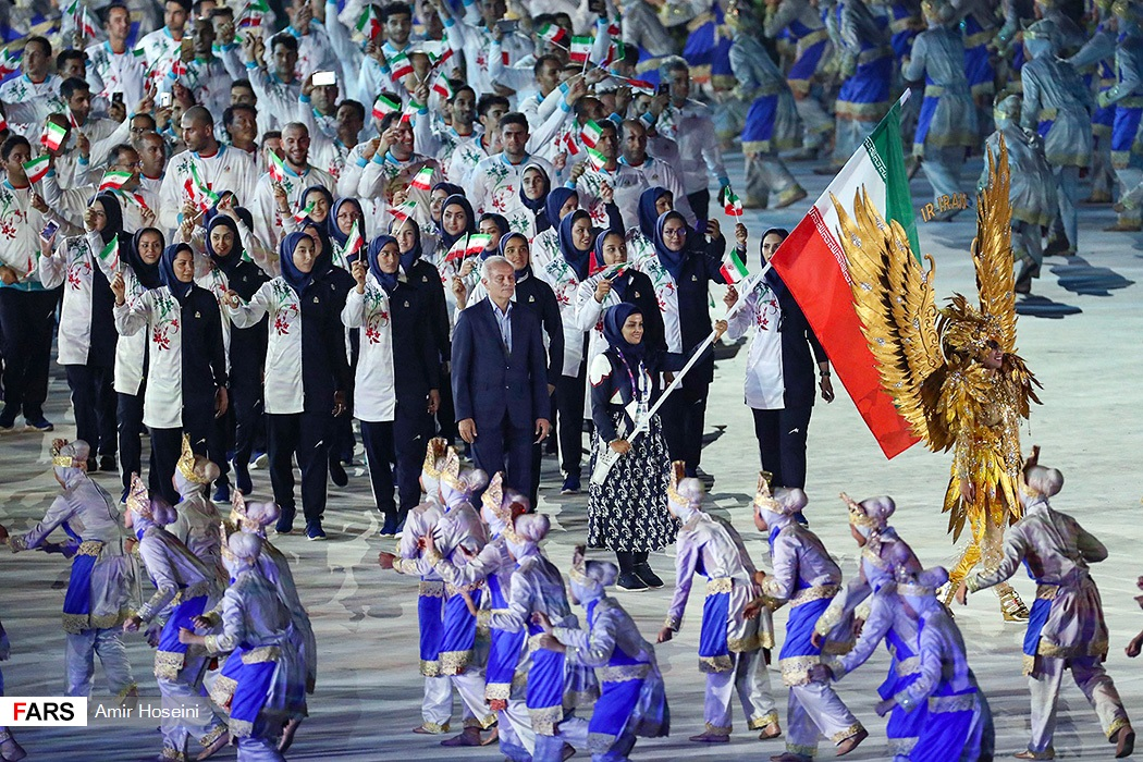 2018 Asian Games opening ceremony